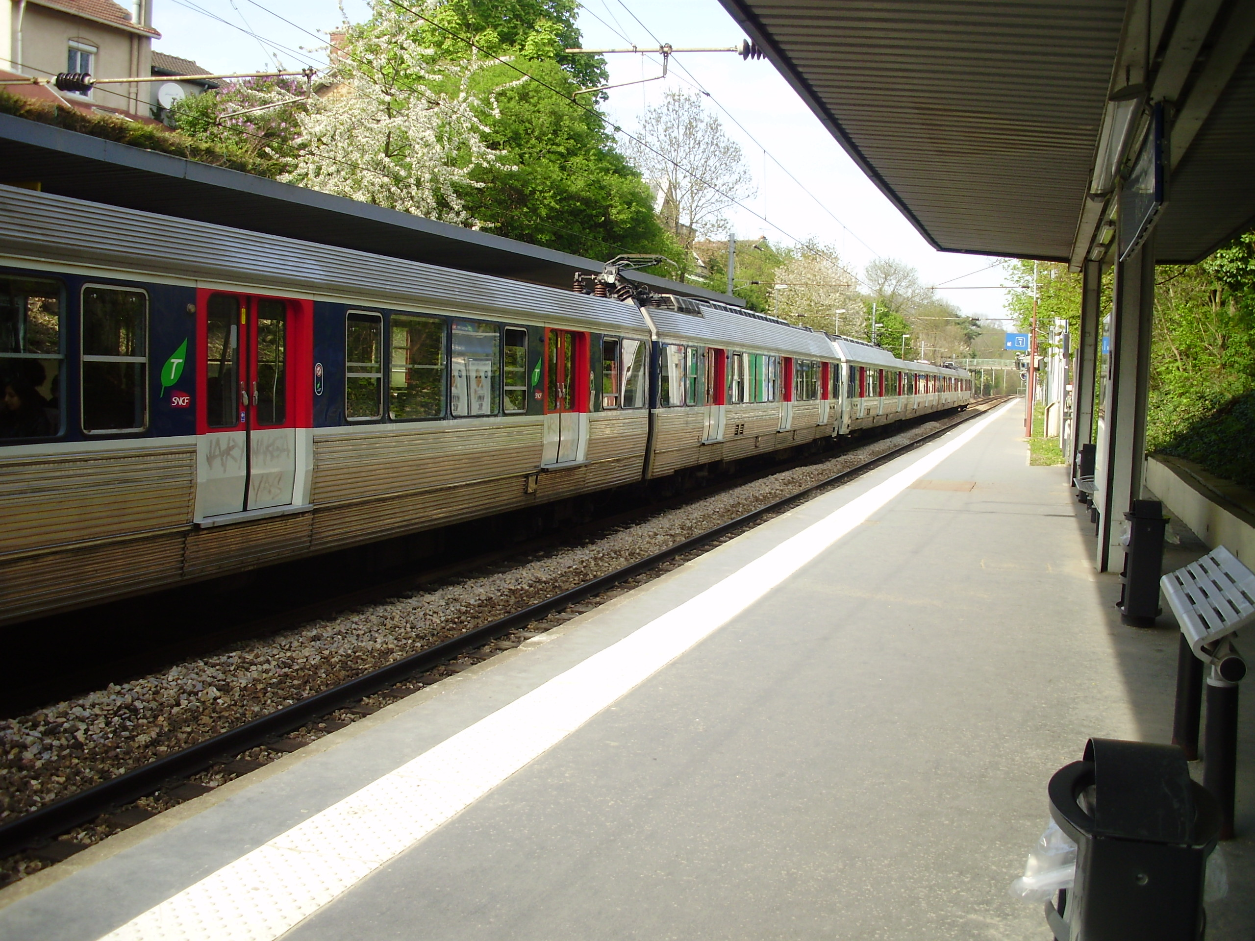 Class Z 6400 electric multiple unit at the Chaville - Rive Droite station, in Chaville, Hauts-de-Seine, France